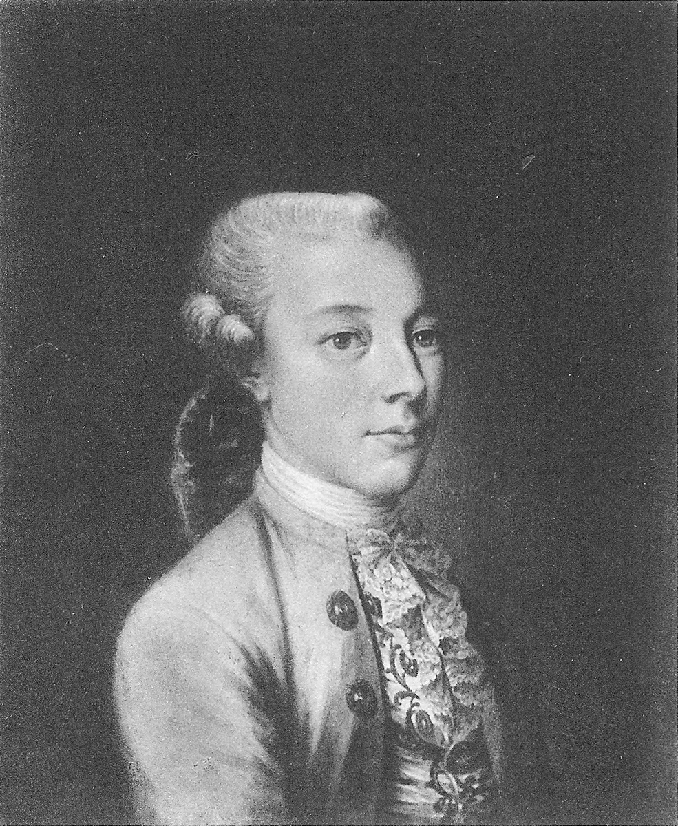 Ulrik Frederik Suhm (1761-1778). Son of Peter Frederik Suhm.